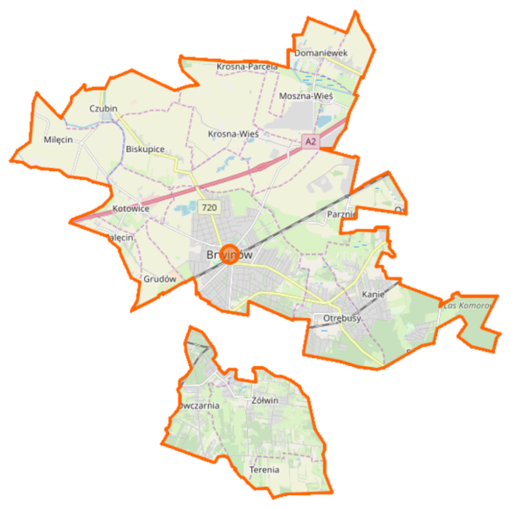 Map of Gmina Brwinów, Poland This map of Brwinów (gmina) was created from OpenStreetMap project data, collected by the community. This map may be incomplete, and may contain errors. Don't rely solely on it for navigation.